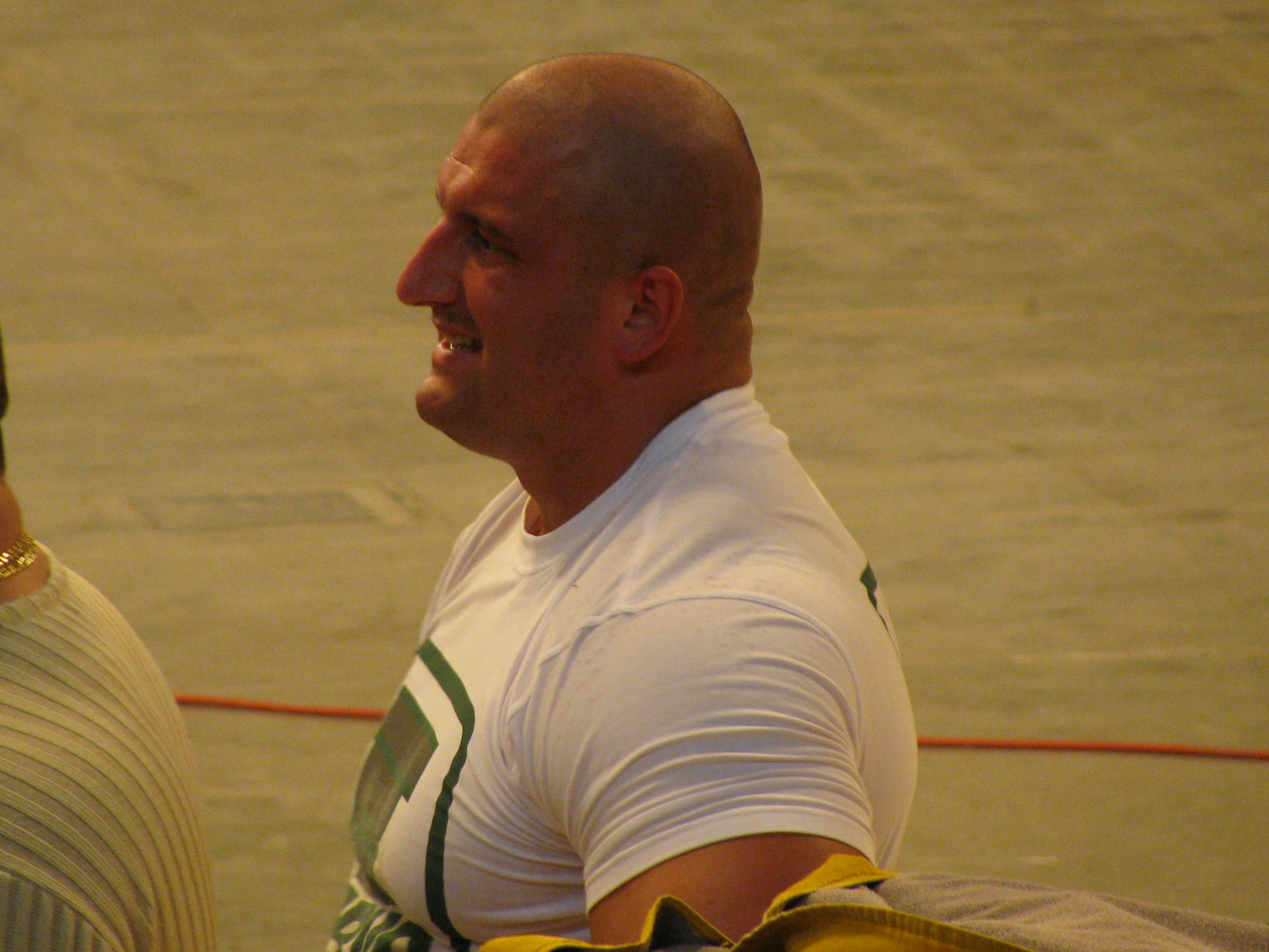 Slawomir Orzel - a Polish strongman during the Battle of The Giants competition, Poland, Łódź City, february 2009